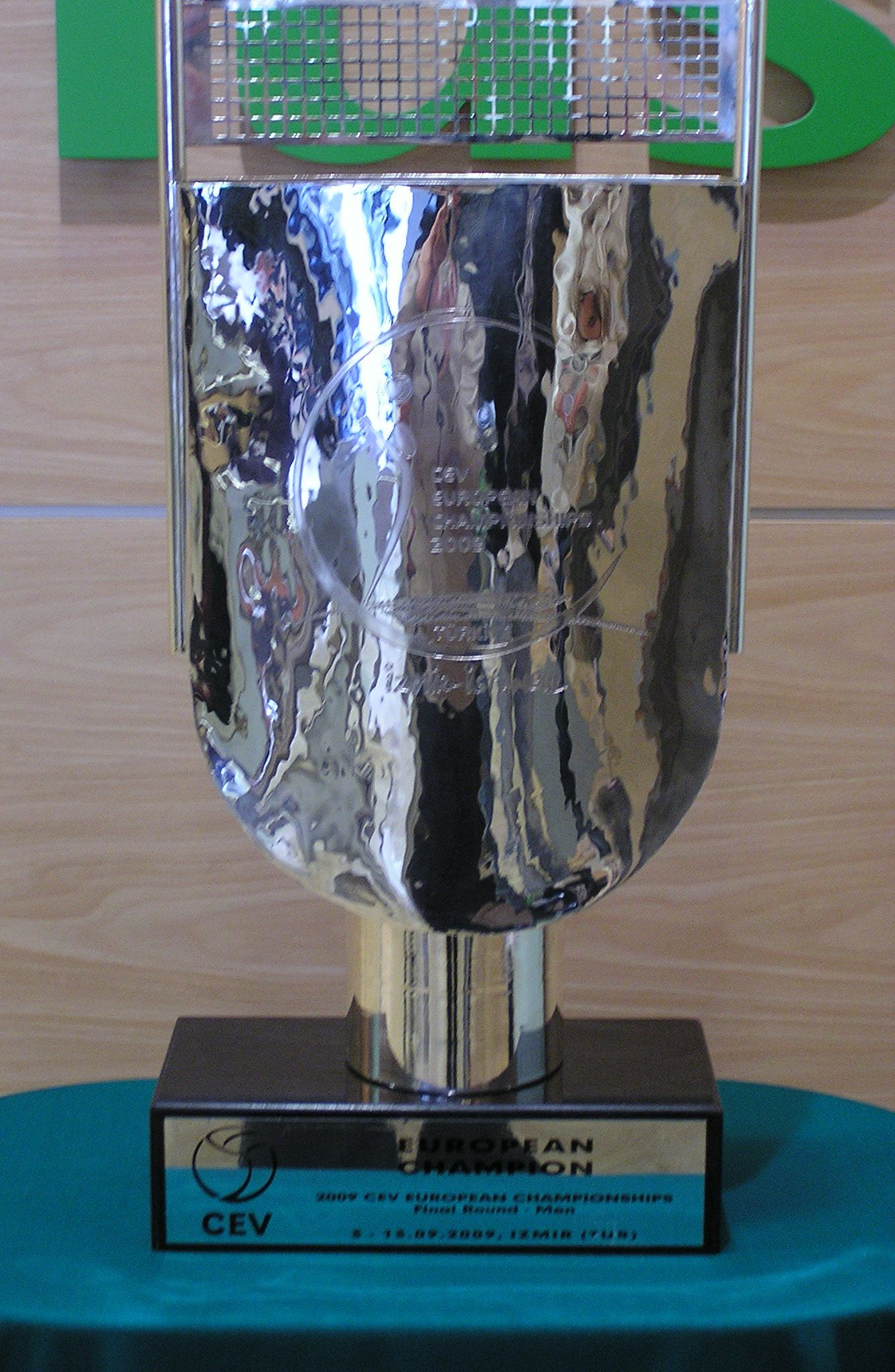 Trophy for the first place in CEV 2009 Men's European Volleyball Championship, won by Polish team.